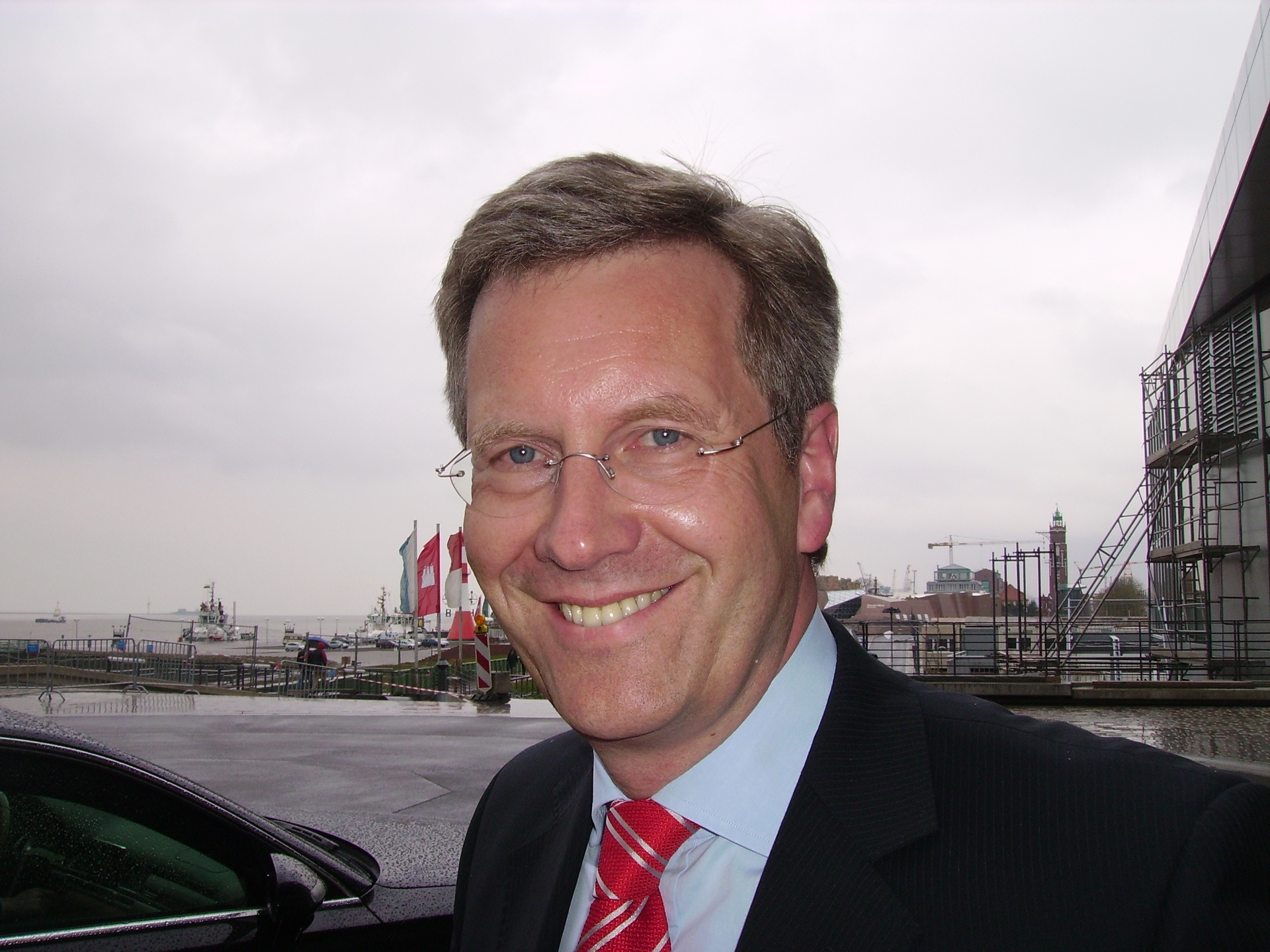 Christian Wulff, the Prime Minister of the German federal state of Lower Saxony, at the conference of the Prime Ministers of the federal states of Northern Germany in Bremerhaven on 17 April 2008